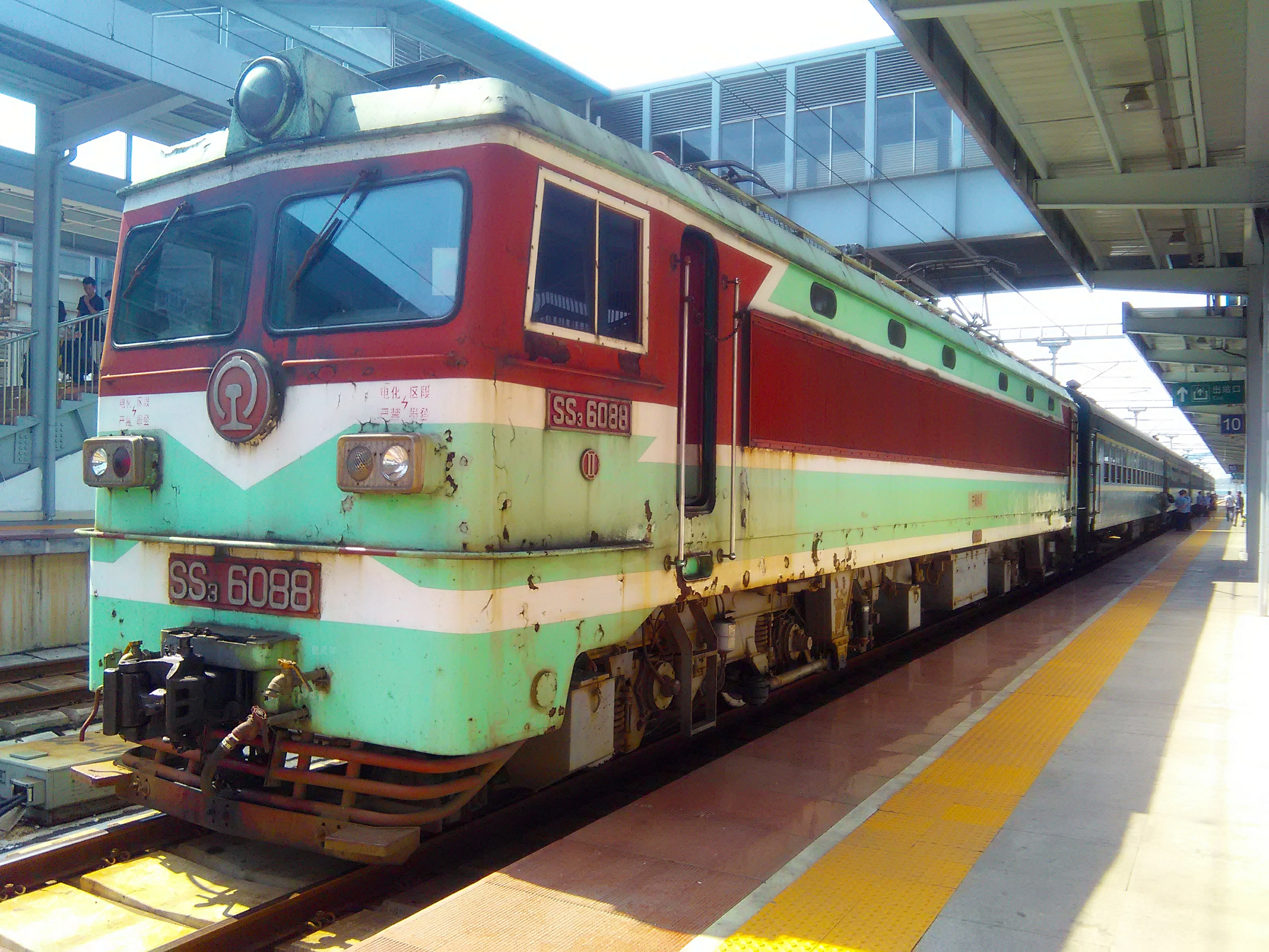 China Railways SS3 6088 in Liuzhou Railway Station with K9321 Express Train.